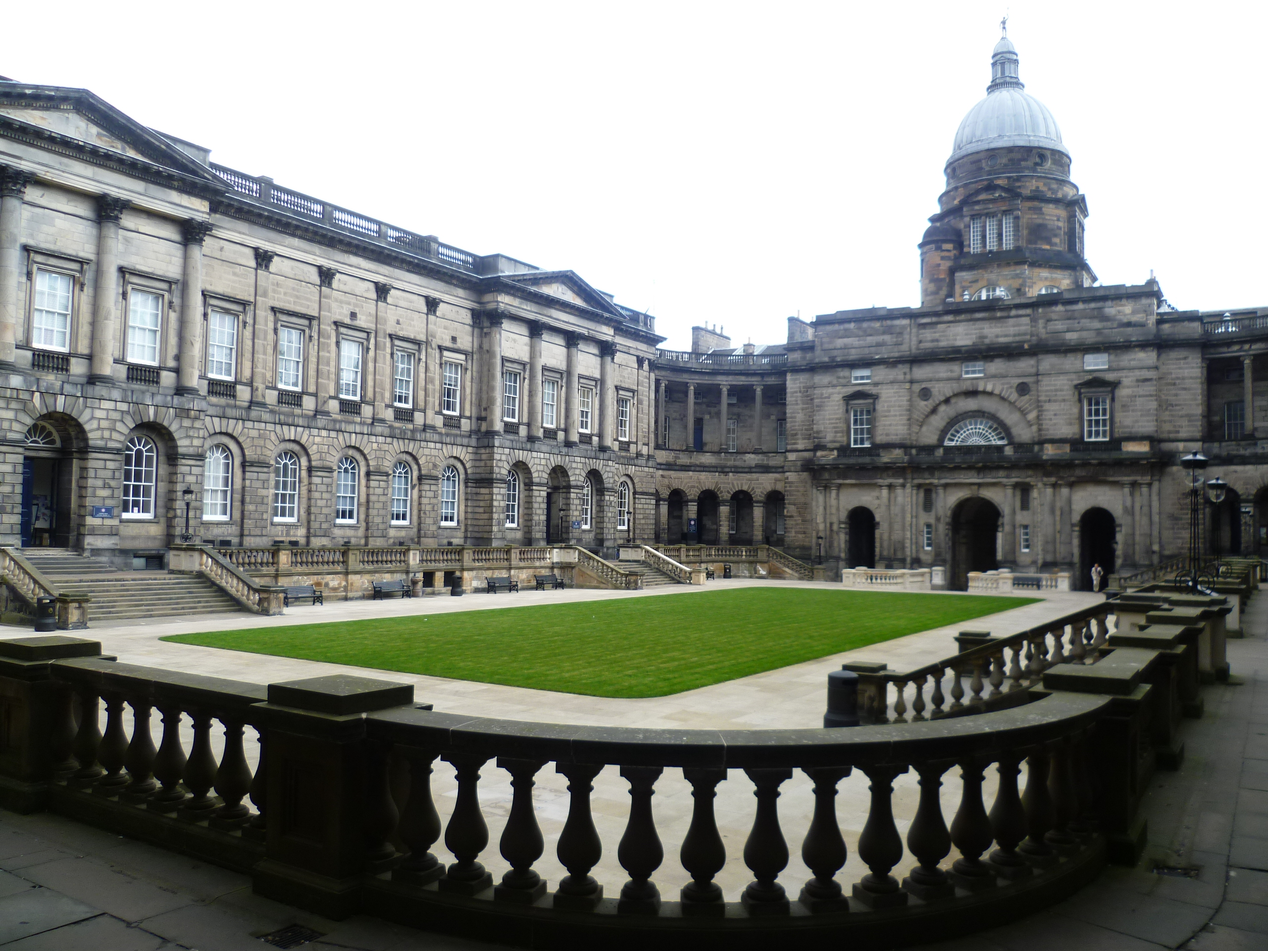 Old College quadrangle, Edinburgh